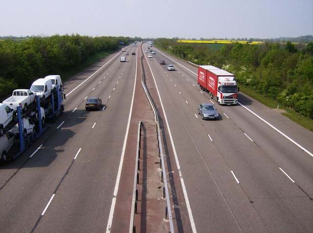 M40 looking north west There is probably a very good reason why the central barrier swerves from one side to the other.